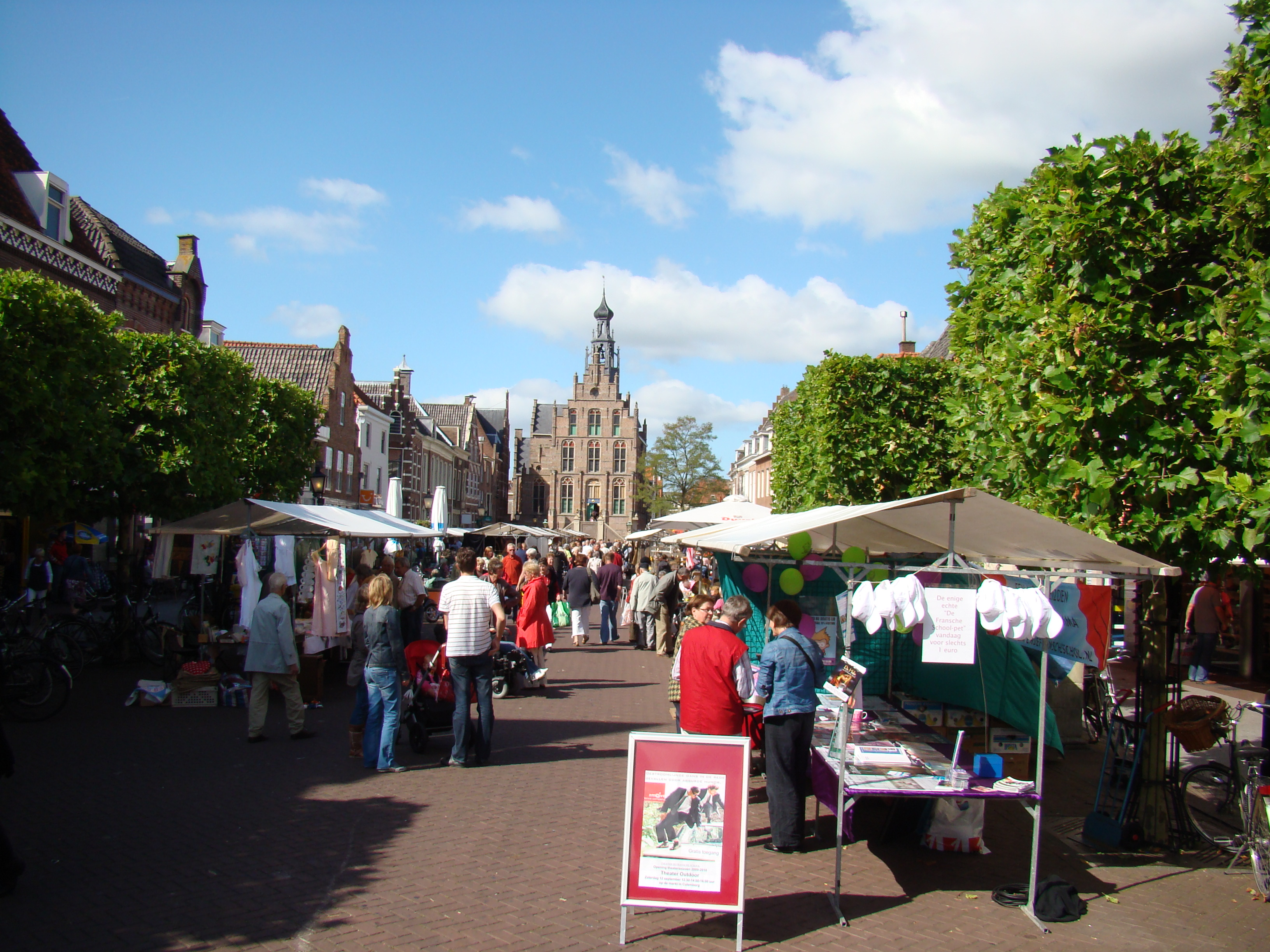 Markedsquare at Culemborg (Netherlands), with behind the cityhall.